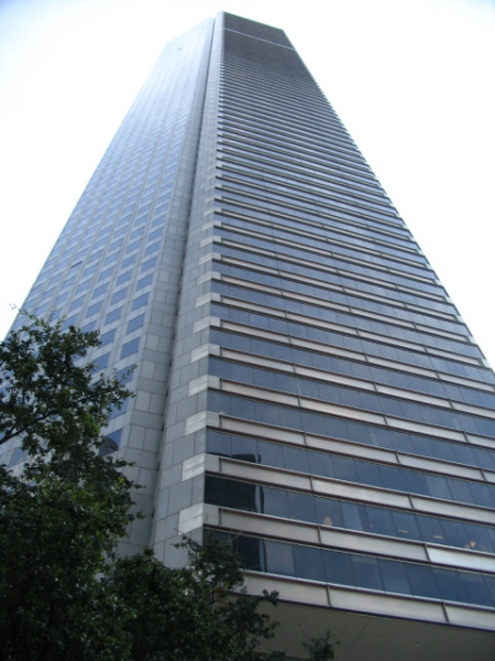 JP Morgan Chase Tower (Houston, TX) Photo By: Daniel2986